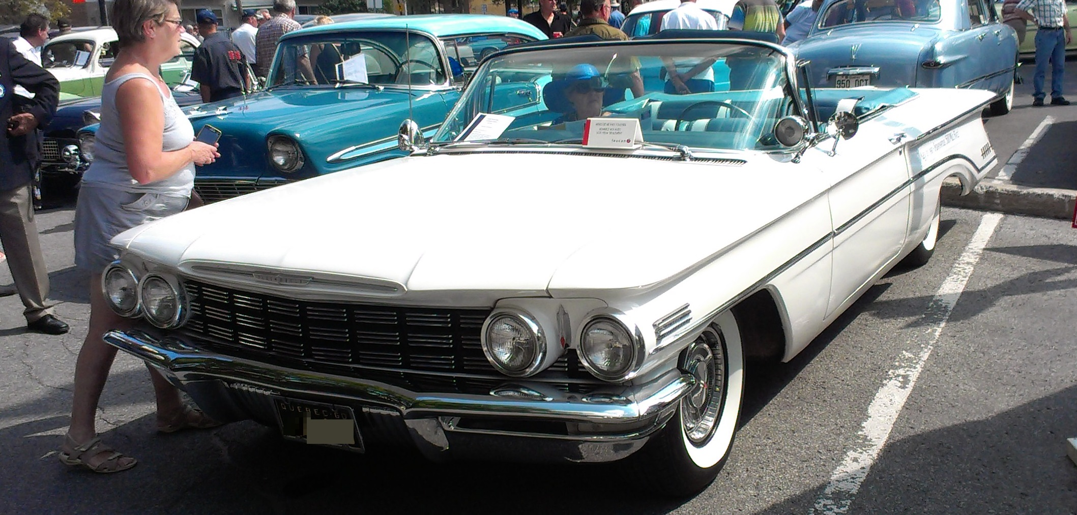 1960 Oldsmobile Super 88 Convertible Coupe photographed in Montreal, Quebec, Canada at the VAQ car show celebrating the centennial of the city's Montréal-Nord borough.